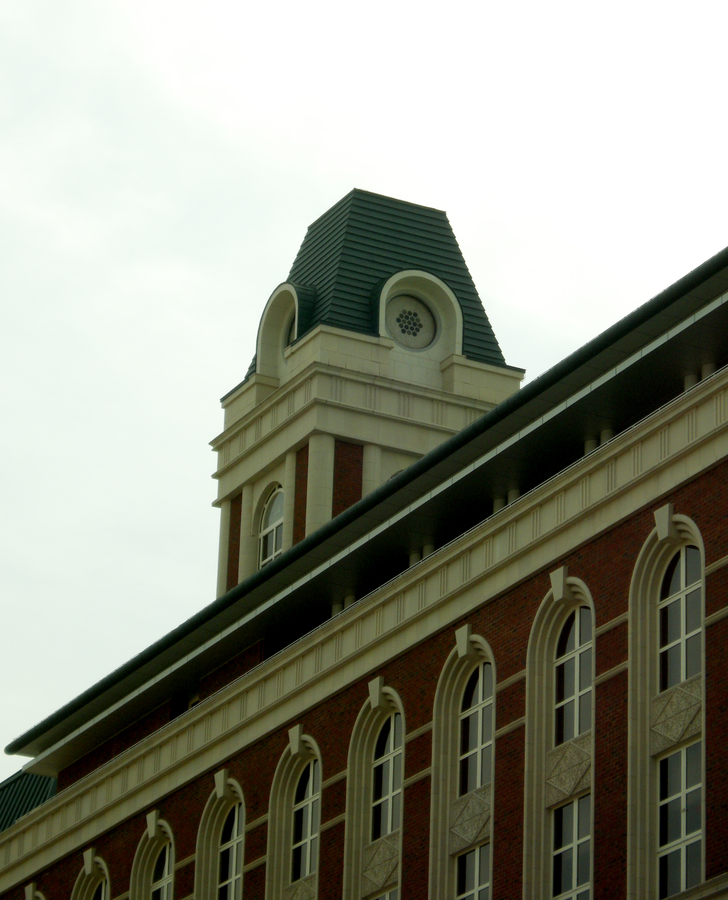 Penthouse of Nakagawa Hall (Ritsumeikan University, Kyoto, Japan)